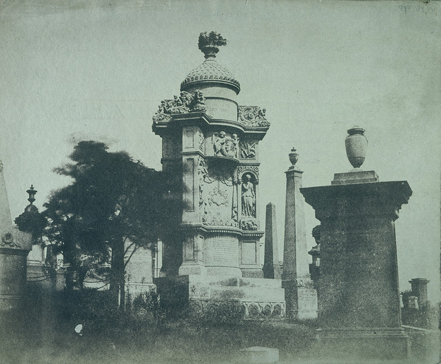 John Muir Wood about 1852 Accession no. PGP W 64 Medium Albumenised salt paper print from a calotype negative Size 18.80 x 23.10 cm Credit Sir Alan Muir Wood Collection, presented 1985 For more information please select here.